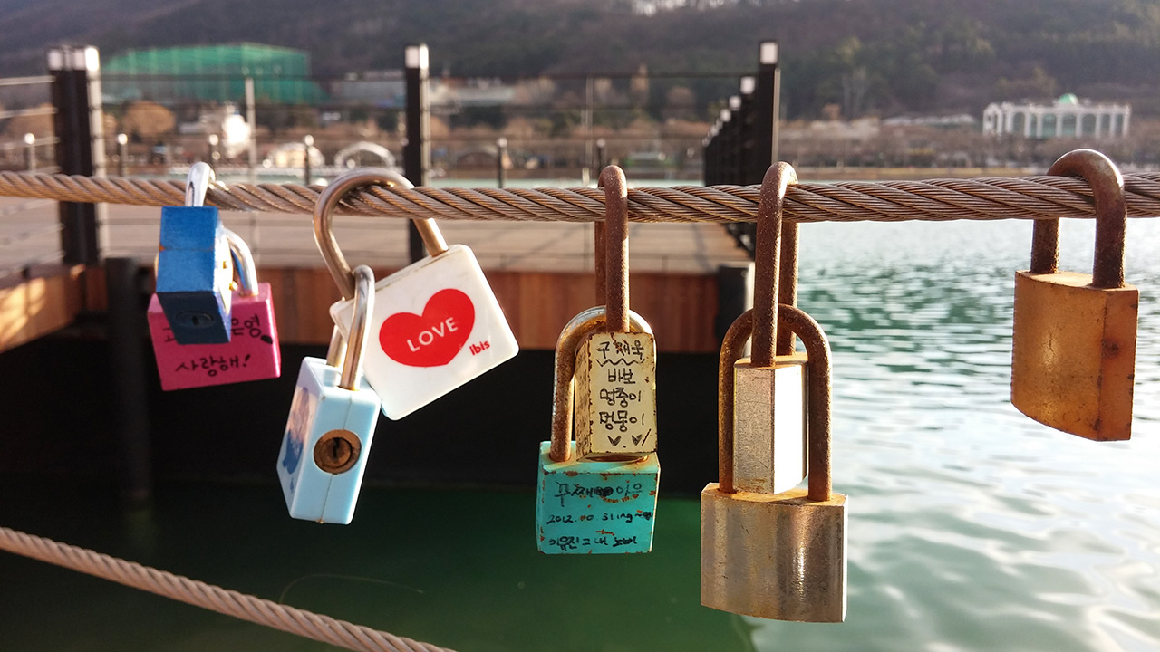 Love-locks in Suseong Lake, Daegu, South Korea